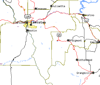 Map of Nez Perce County, ID from US Census (public domain)